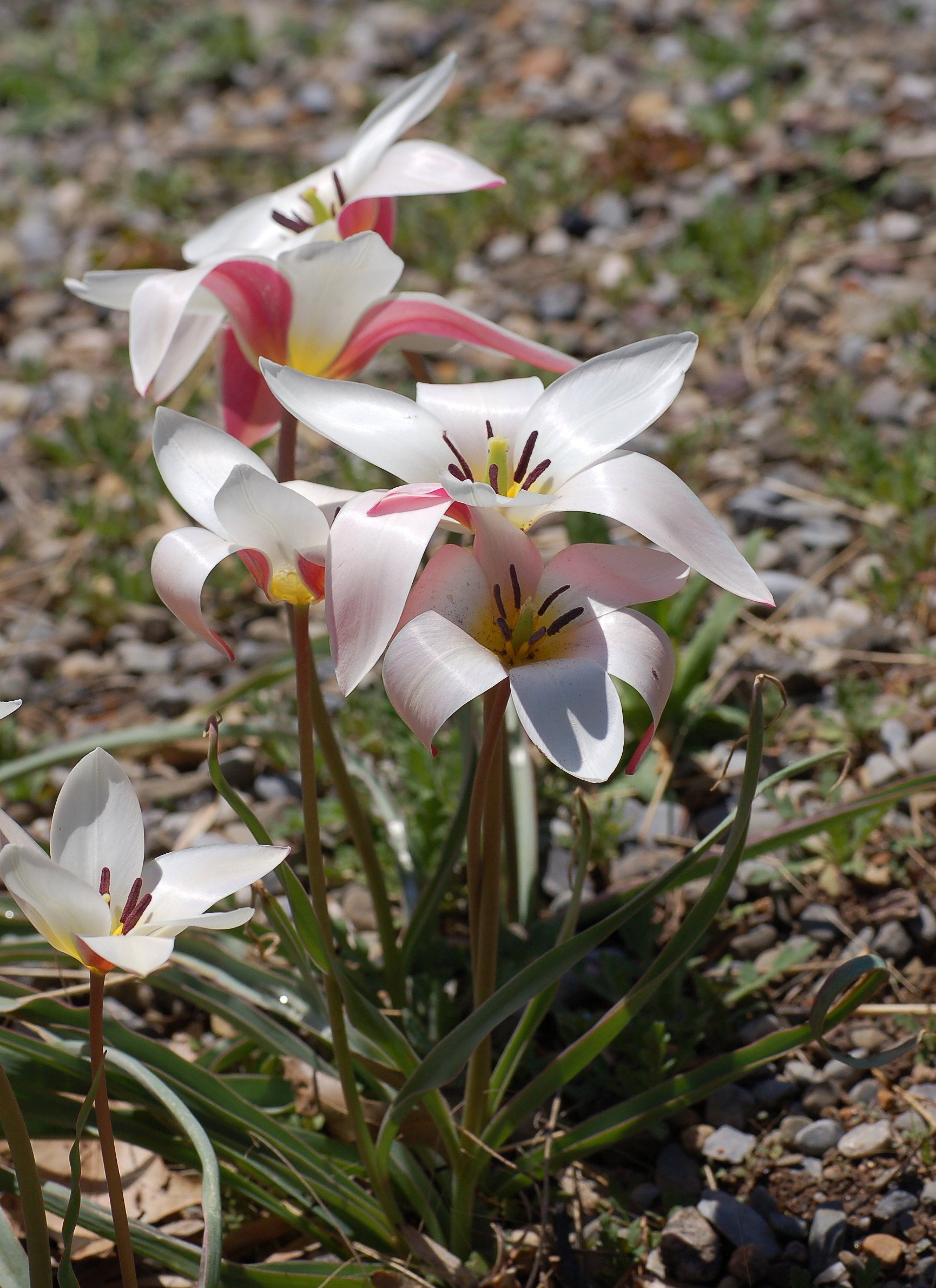 A picture of the Tulipen (Tulipa clusiana en 'Lady Jane') plant. Photo taken in the Rock Ledge at the Chanticleer Garden where it was identified.